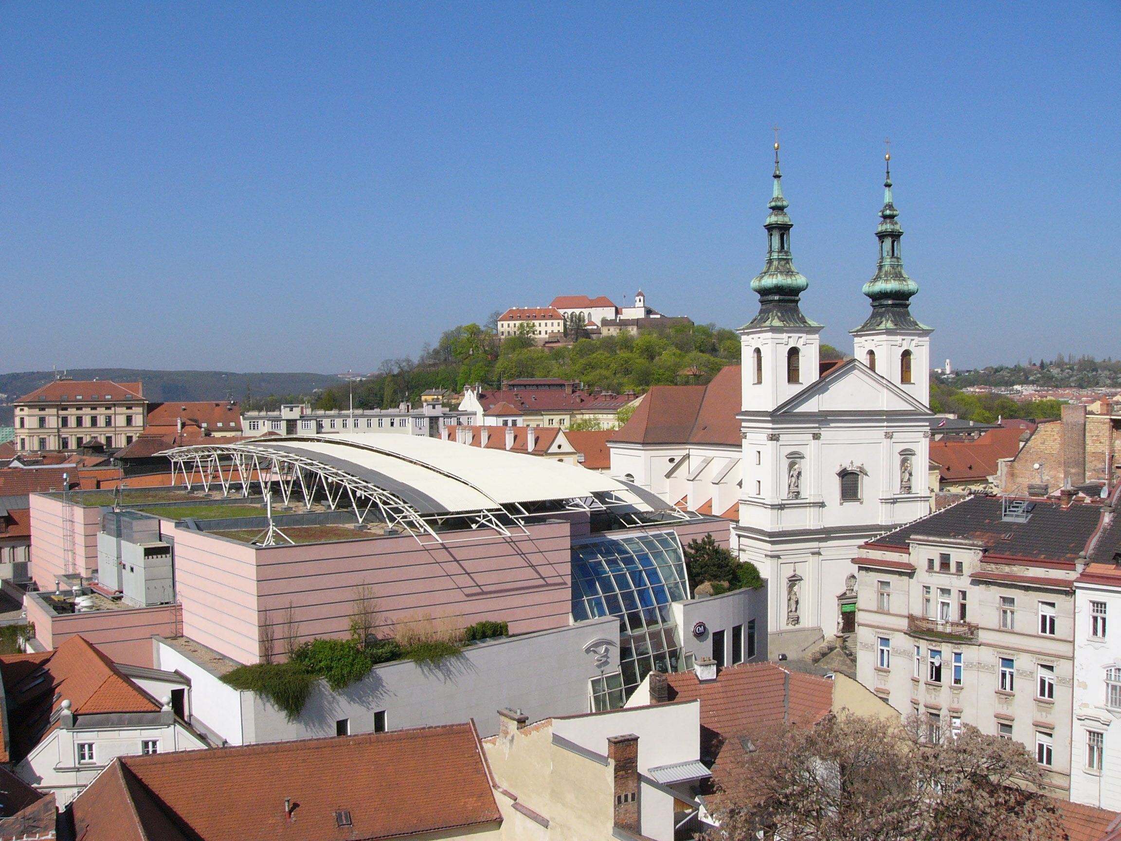 Špilberk in Brno, view from the townhall tower.